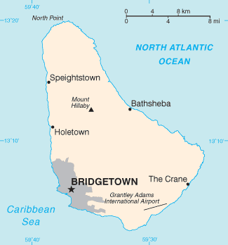 Barbados map from CIA World Factbook (since May 10, 2005)